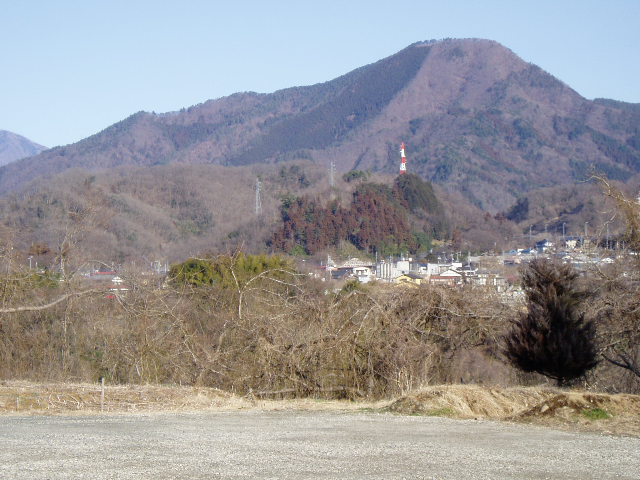 Mount Momokura (1003m) from the South, Yamanashi Prefecture, Japan